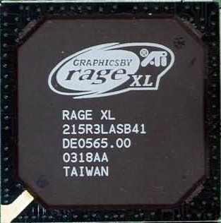 ATI 3D Rage XL chip photo